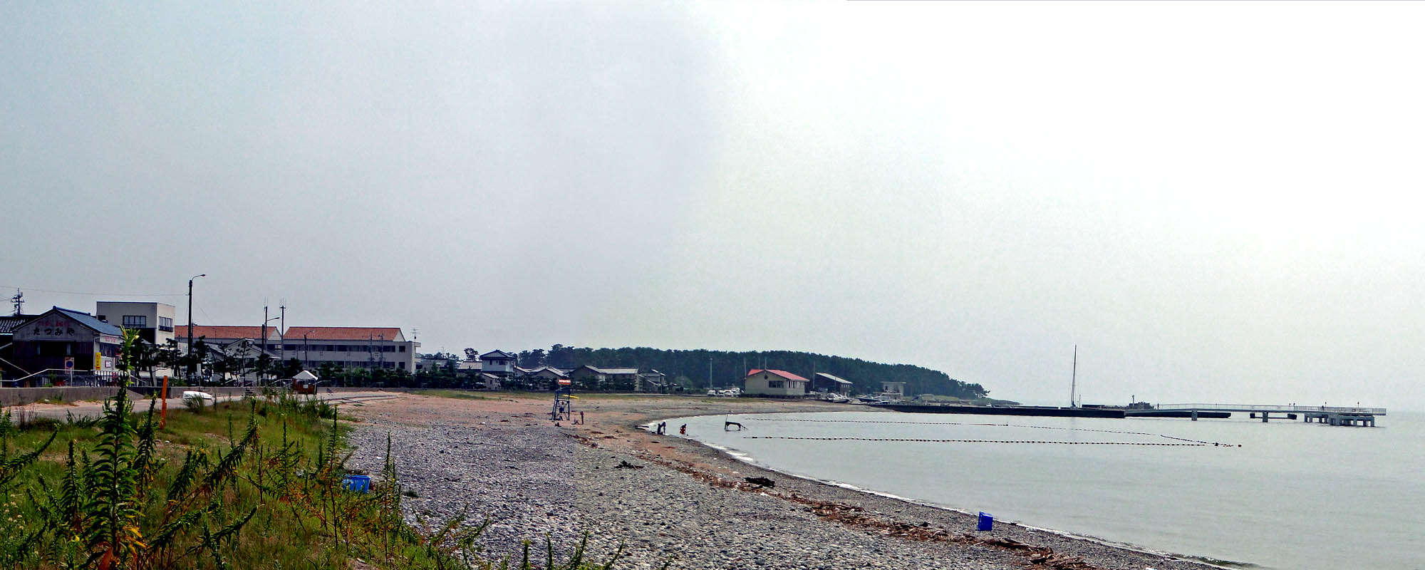 Ishida beach Toyama Pre.